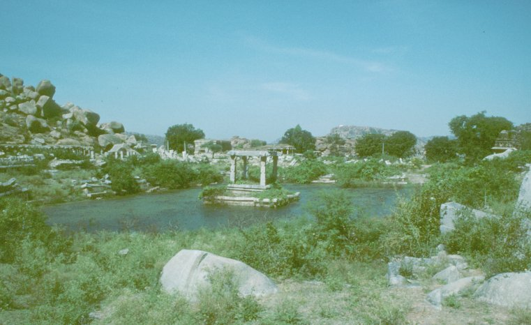 Shrine in a tank at Vijayanagara; picture taken in January 1991. This photo was taken by me using Ektachrome 64 and scanned.